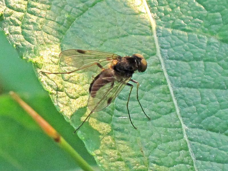 Chrysopilus cristatus (Rhagionidae sp.) male, Arnhem, the Netherlands